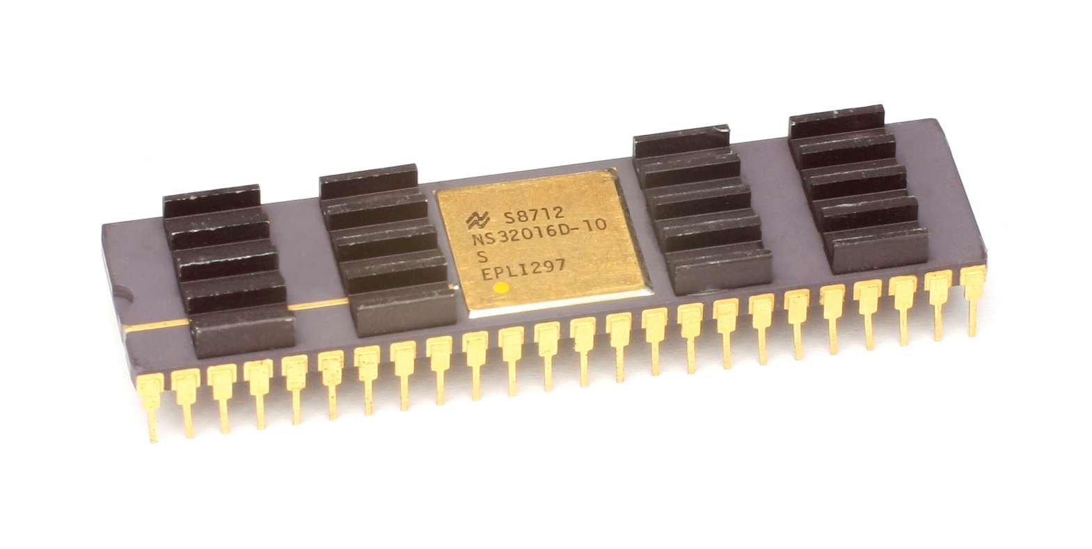 CPU National Semiconductor NS32016.